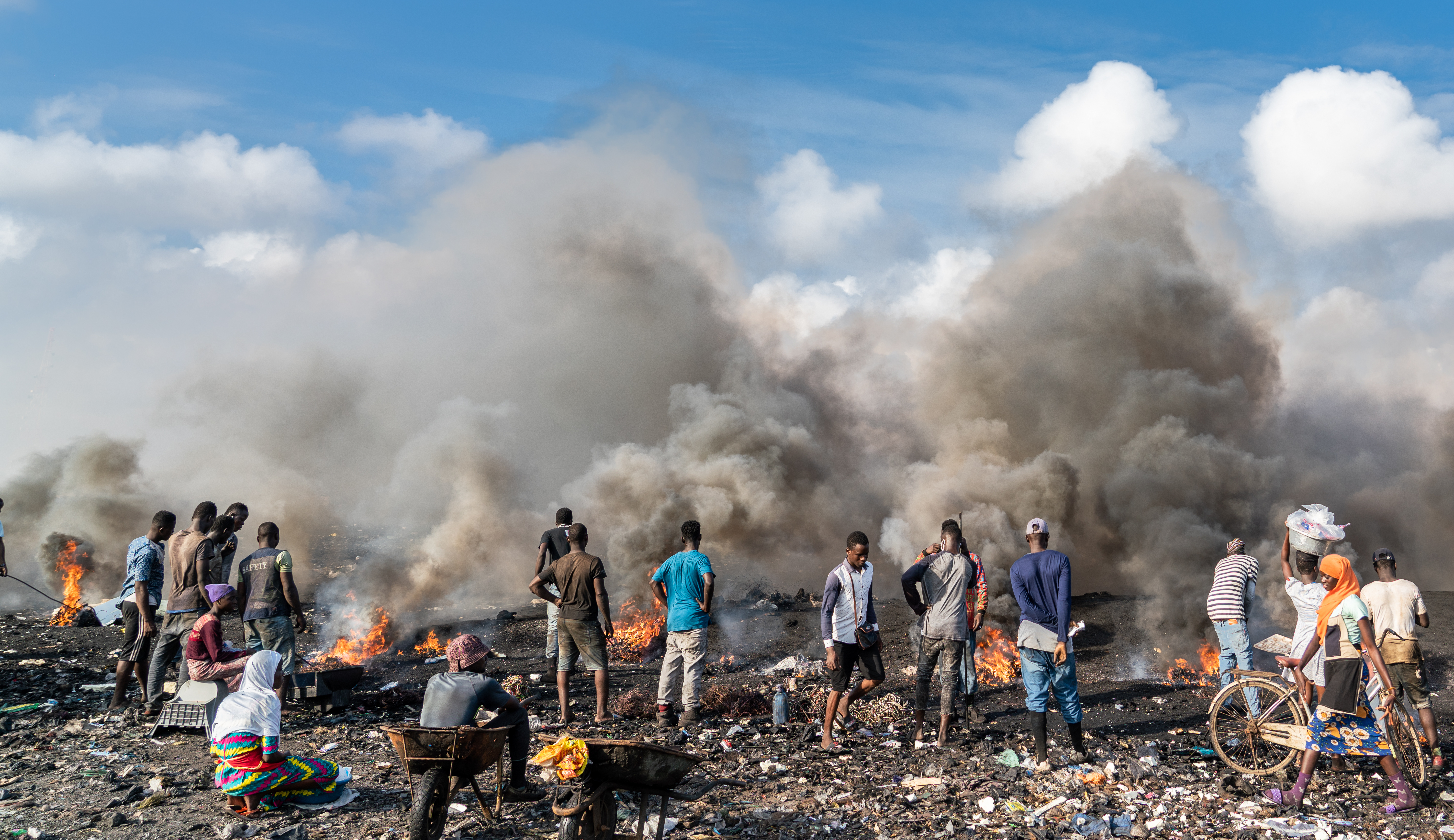 Young men are pictured burning electrical wires to recover copper at Agbogbloshie, Accra, Ghana on September 2, 2019.